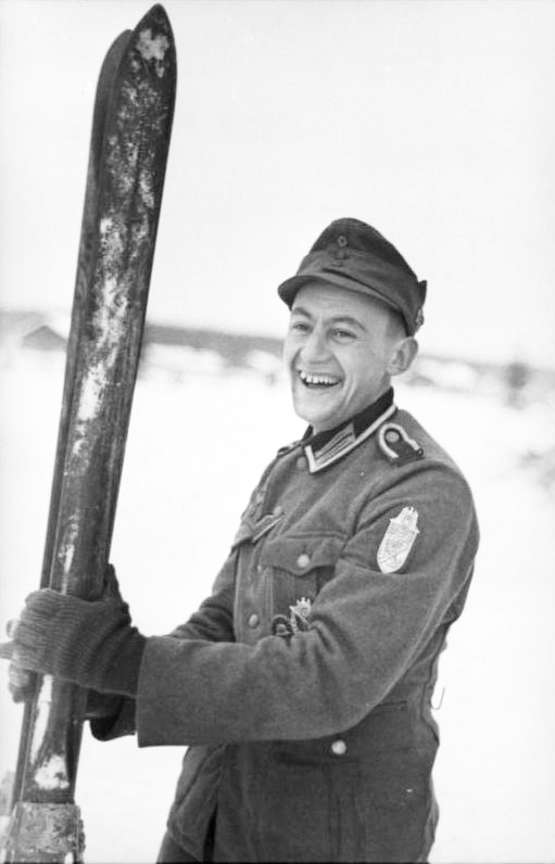 Information added by Wikimedia users.